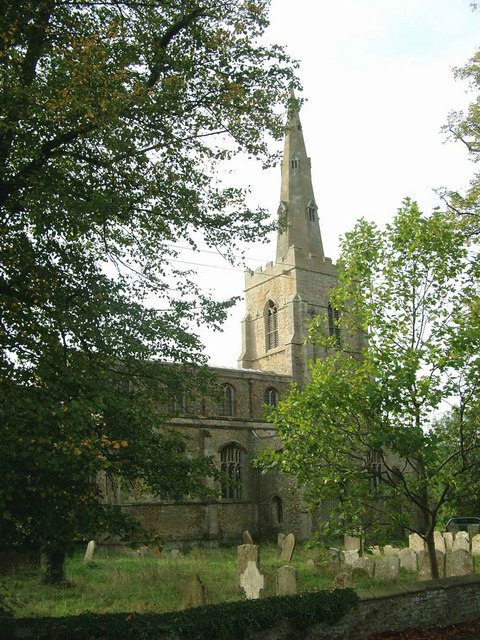 St Mary's parish church, Bluntisham, Cambridgeshire (formerly Huntingdonshire), seen from the northeast